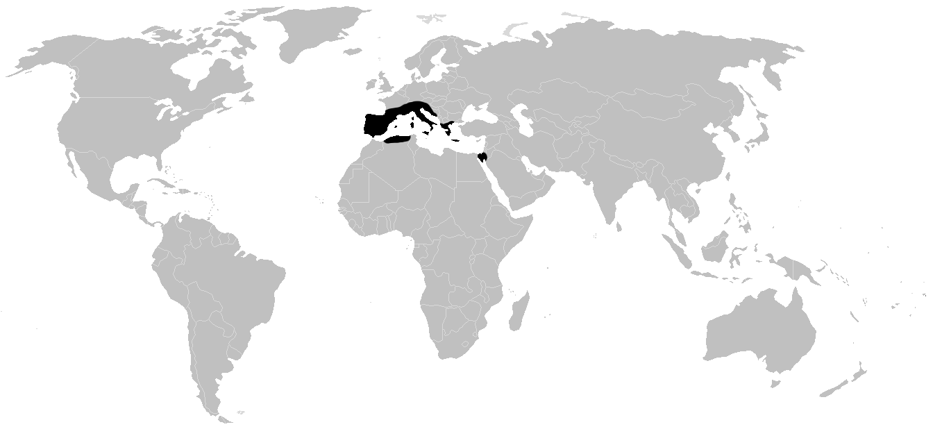 World distribution of Trogulidae (Opiliones). Resolution is only to countries!